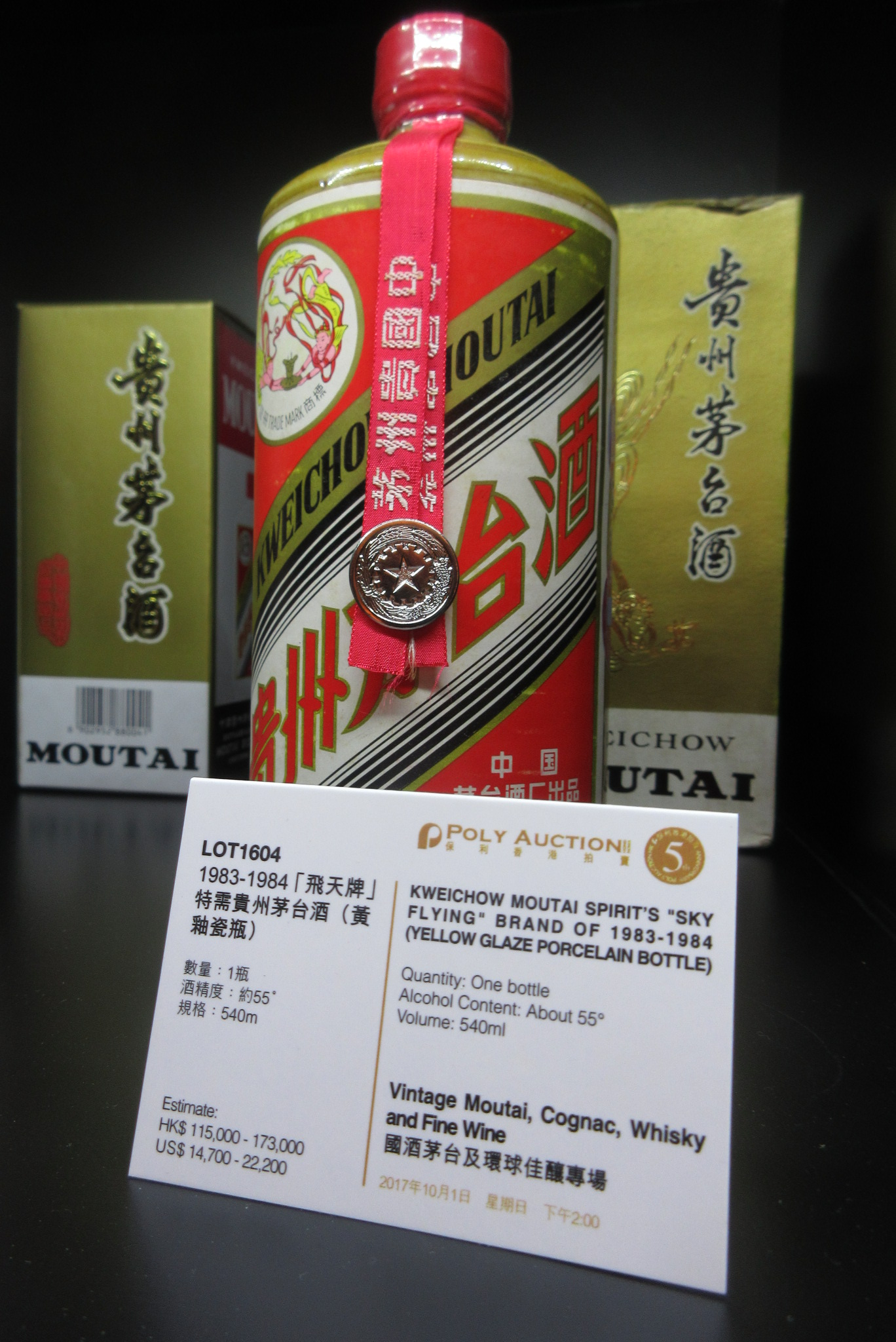 HK Wan Chai North 君悅酒店 Grand Hyatt Hotel 保利集團 Poly Auction Preview exhibition in September 2017